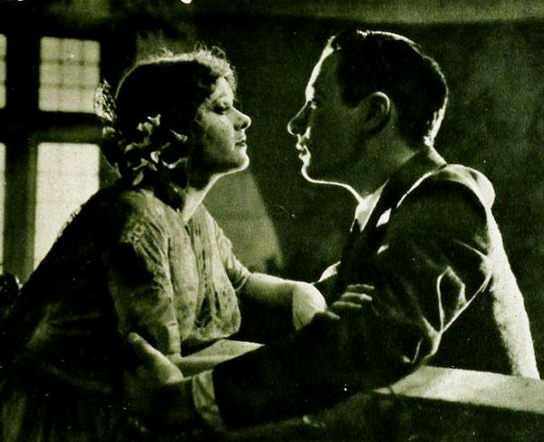 Still from the American film The Stolen Kiss (1920) with Constance Binney and Rod La Rocque, from an adaption of the film on page 61 of the June 1920 Motion Picture Magazine.